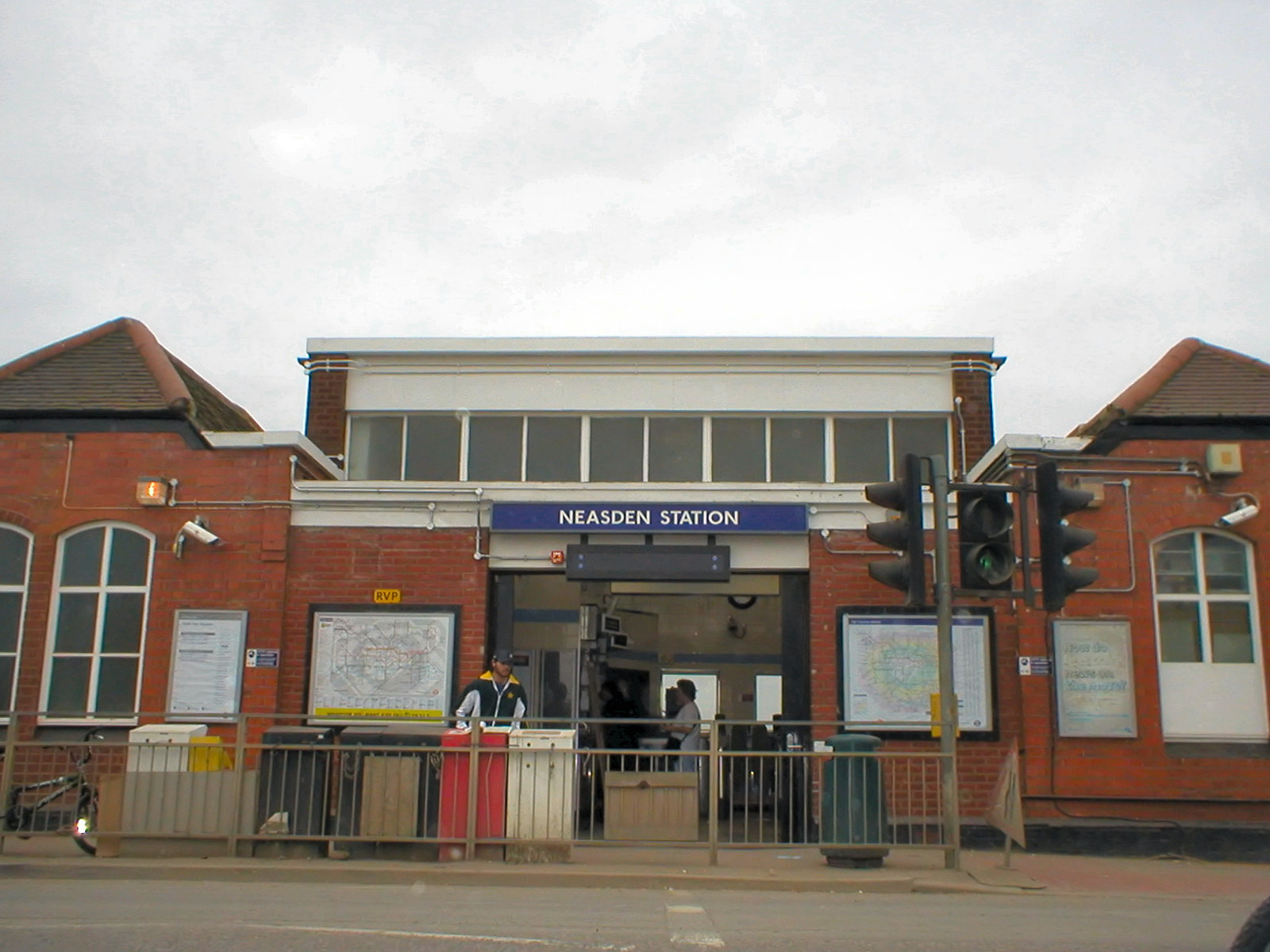 Exterior of Neasden station surface building, taken by User:BillyH using digital camera on the 5th September 2006.